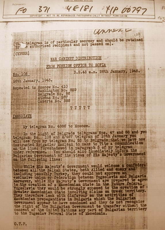 The telegram of the British Government which "does not approve a federation between Yugoslavia and Bulgaria." It is prepared to agree on the creation of a Macedonian state in the Federative Yugoslavia, but it will oppose to the creation of a Great Macedonian State involving claims on Greek territory. (January 1945) This media file is produced by Wikipedian in Residence in Category:Wikipedian in Residence at DARM in 2016.